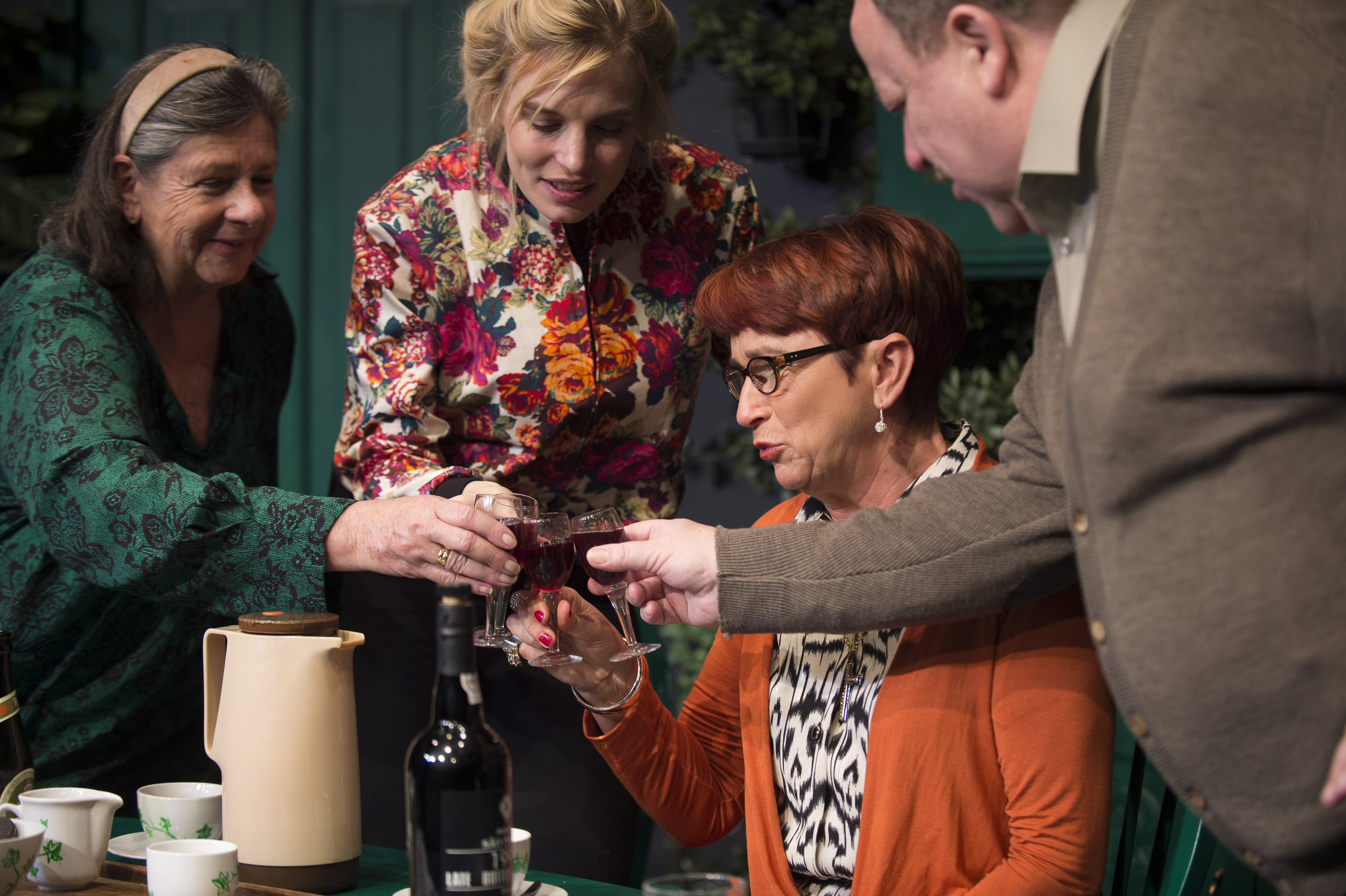 The Copenhagen theater Folketeatret's production of the play "Parasitterne" by Carl Erik Soya.